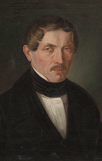 Jan Barszczewski